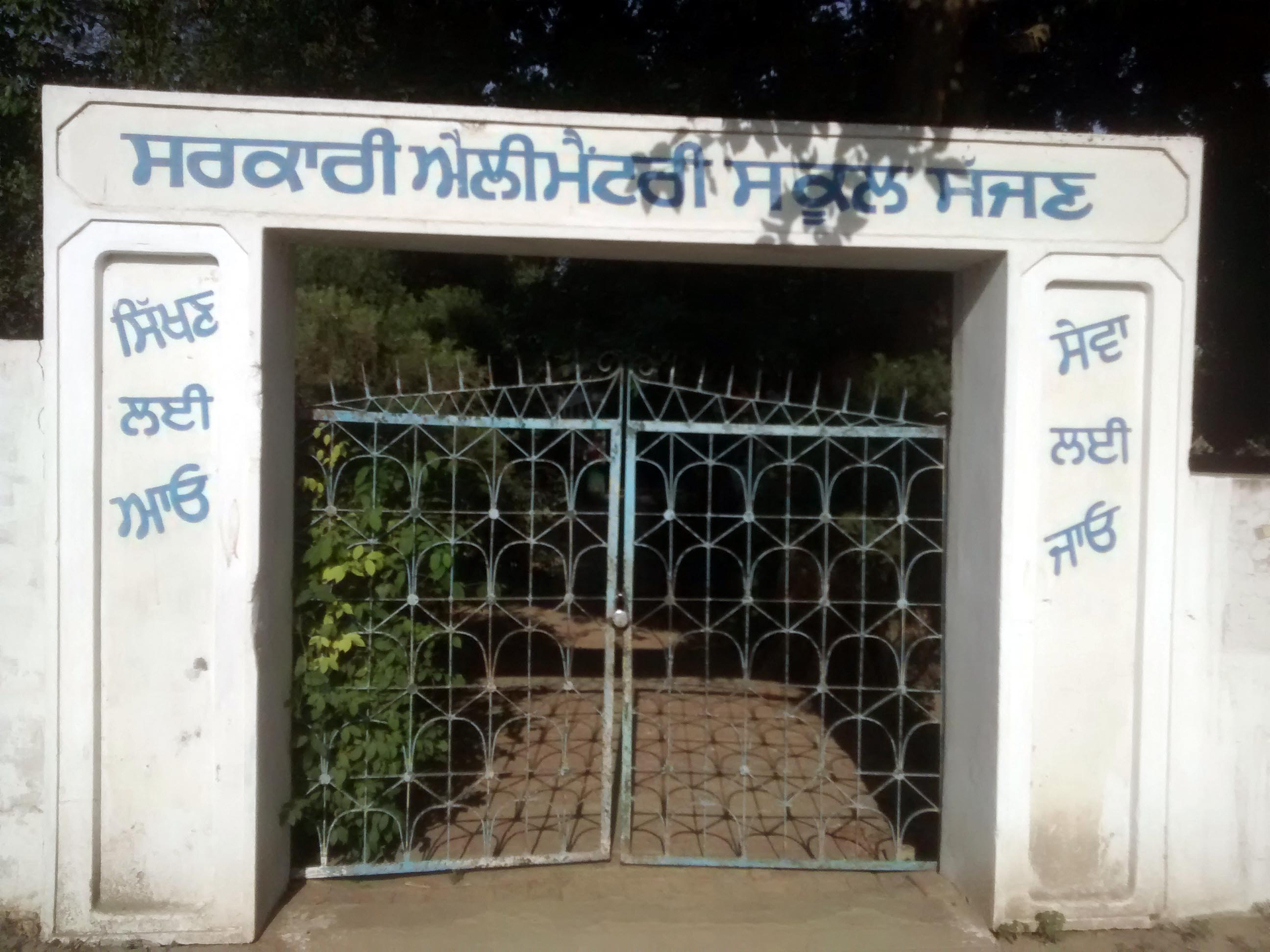 School gate